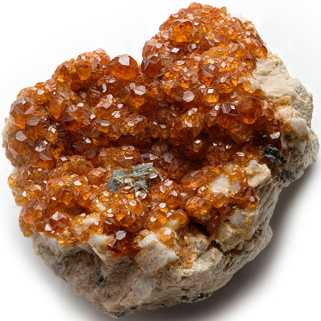 Garnet var. Spessartine, Putian City, Putian Prefecture, Fujian Province, China Camera data Camera Canon EOS 400D Lens Canon EF 70-200mm f4L w/ 12mm extension tube Flash Shoot through umbrella Focal length 122 mm Aperture f/11 Exposure time 1/160 s Sensivity ISO 100